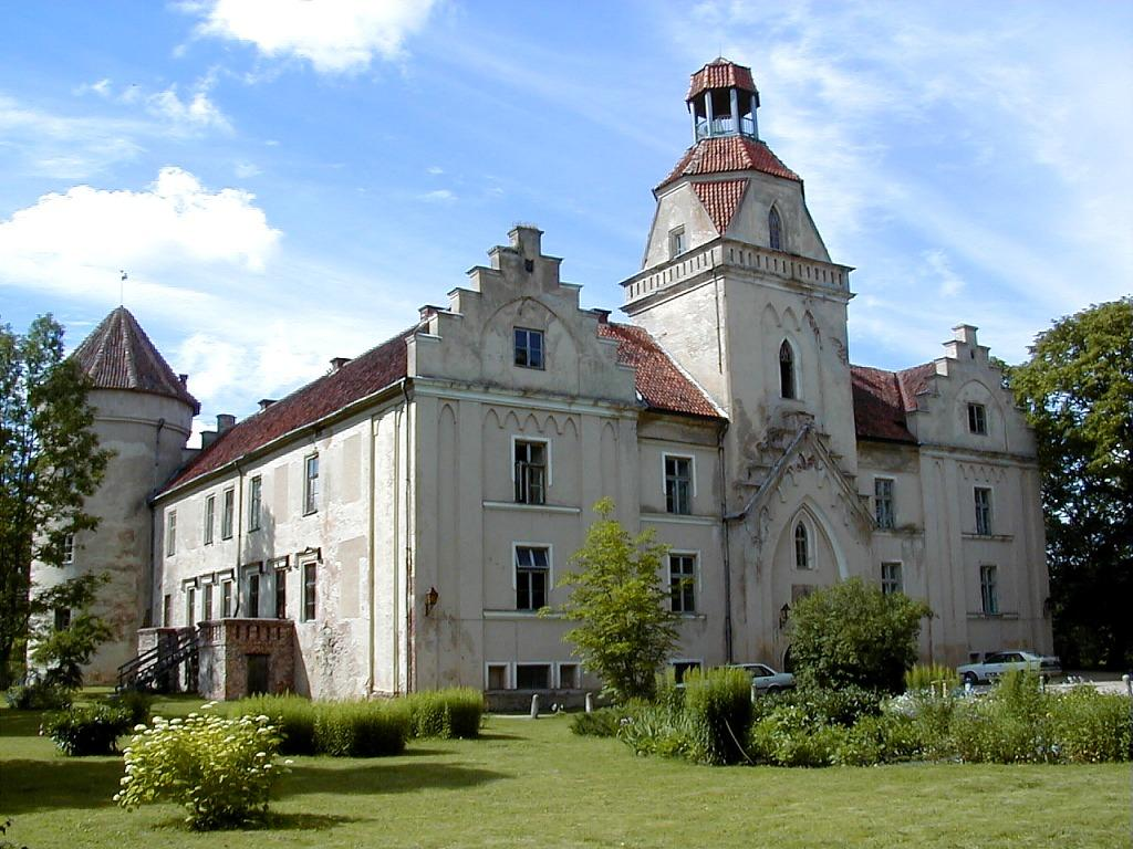 Ēdole Castle